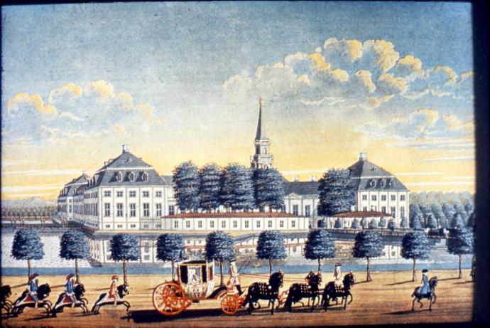 Gouache of Hirschholm Palace north of Copenhagen, Denmark. Painted by Johan Jacob Bruun